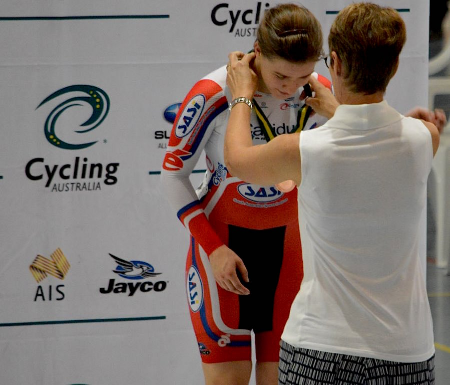 Belder receiving Keirin bronze behind Anna Meares and Stephanie Morton at the 2016 Subaru Cycling Australia Track National Championships.